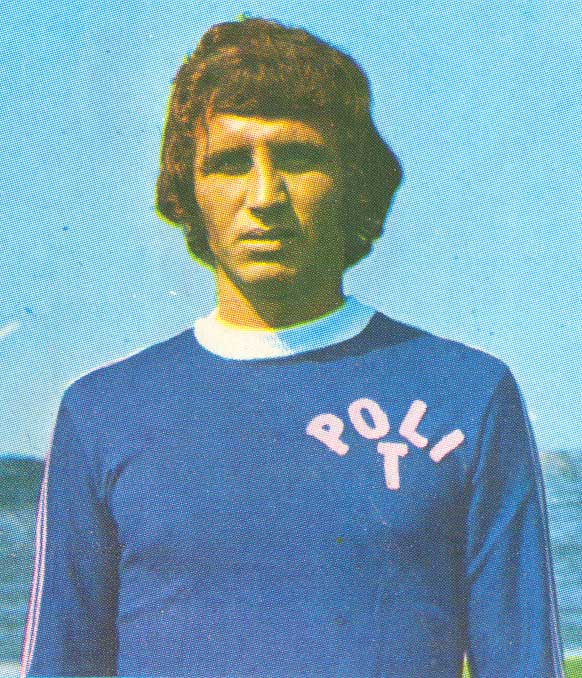 Dan Păltinișanu as a player of FC Politehnica Timișoara.